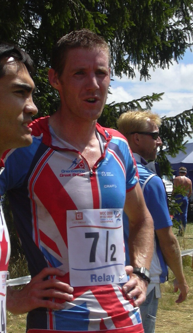 World Orienteering Championships 2008 in Olomouc, Czech Republic. On photo Jon Duncan.